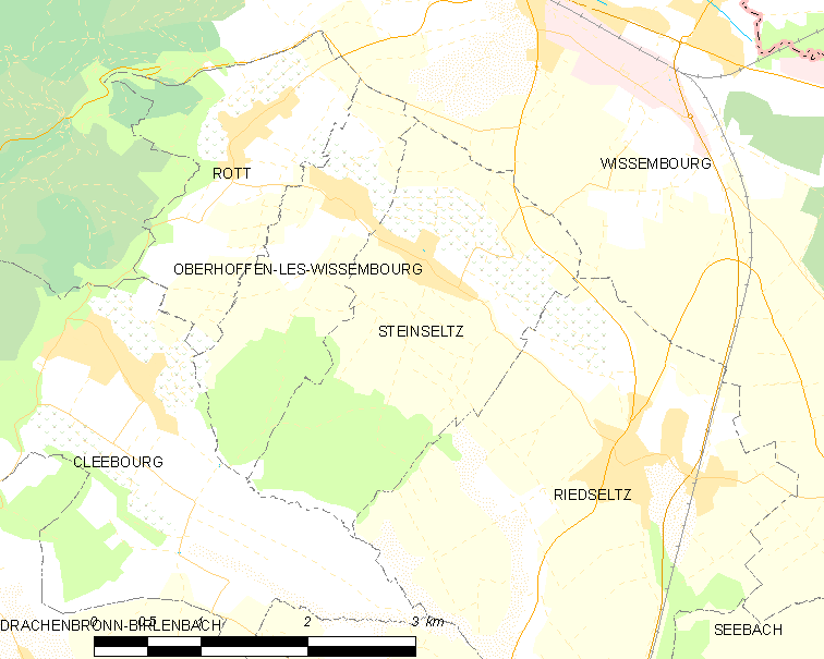 Map of French municipality